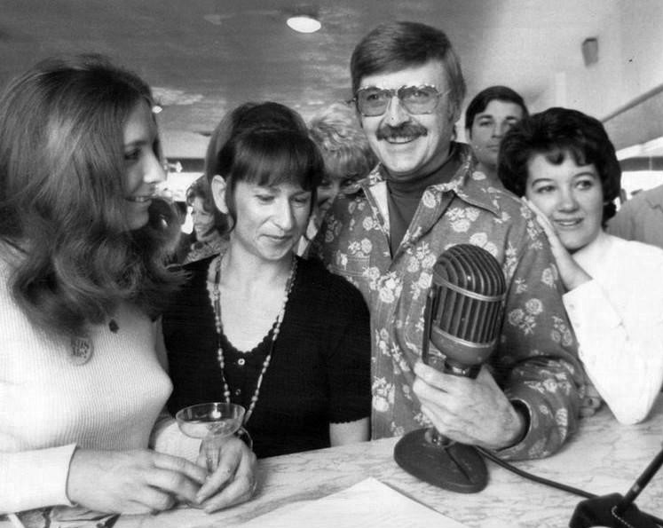 Photo of radio personality Bill Ballance broadcasting his Feminine Forum radio program from a remote (non-studio) location. At the time, Ballance was based in Los Angeles.